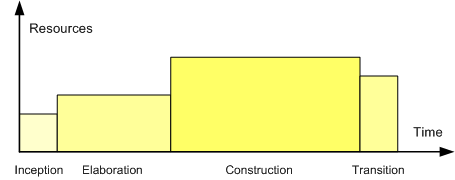 Unified Process: Typical Project Profile Author: --GFLewis 03:41, 9 July 2006 (UTC) can i hav edetailed description of unified process